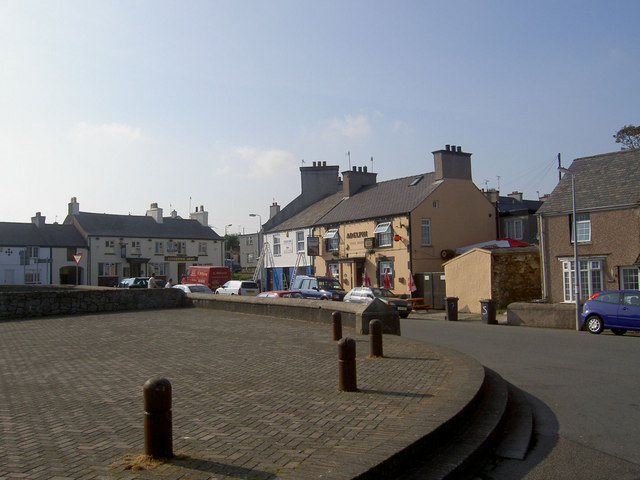 The Adelphi Vaults Amlwch The heart of the village pubs and a fish and chip shop. Summer was here late on October 8 2007. The locals said this was the best day this year. Hard to imagine this sleepy place was at the centre of the Copper mining boom.